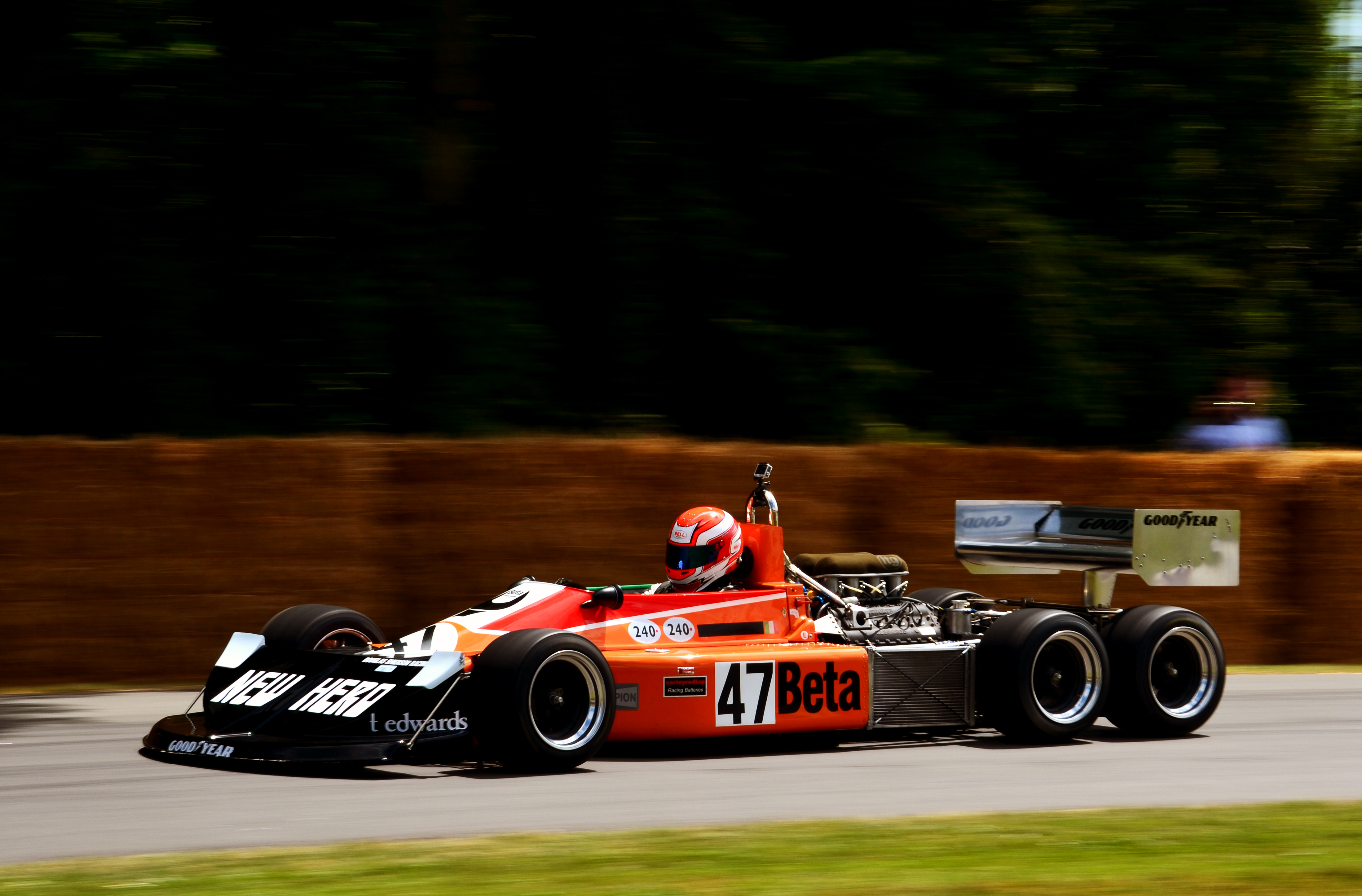 The 1976 March 2-4-0 F1 car at the 2014 Goodwood Festival of Speed.